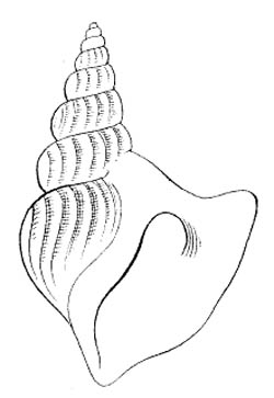 Illustration of the seashell American Pelican's-foot, Arrhoges occidentalis (Beck, 1836)[1]